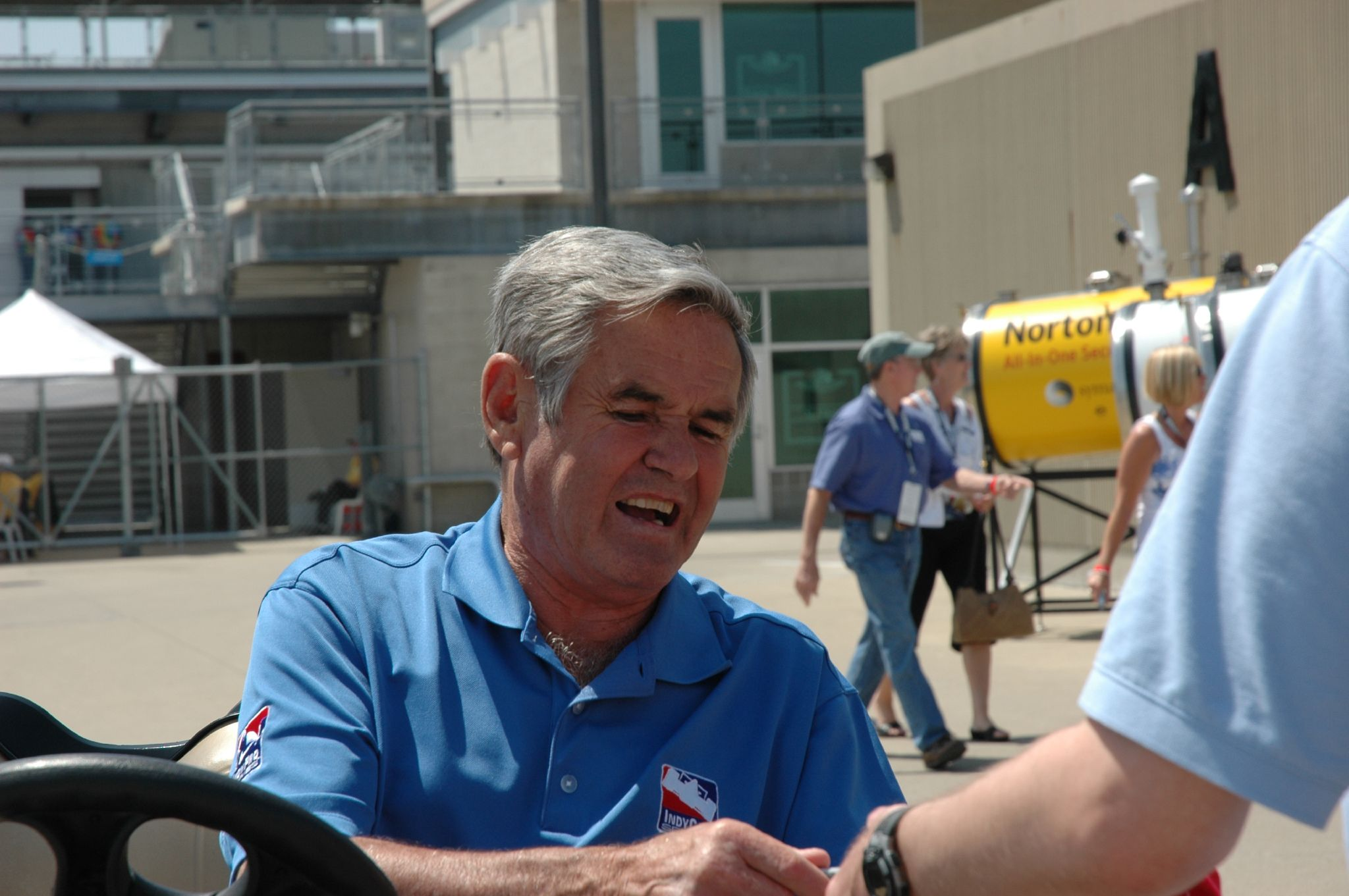 Four time Indy 500 winner Al Unser, Sr. taken at the 2007 Indy 500